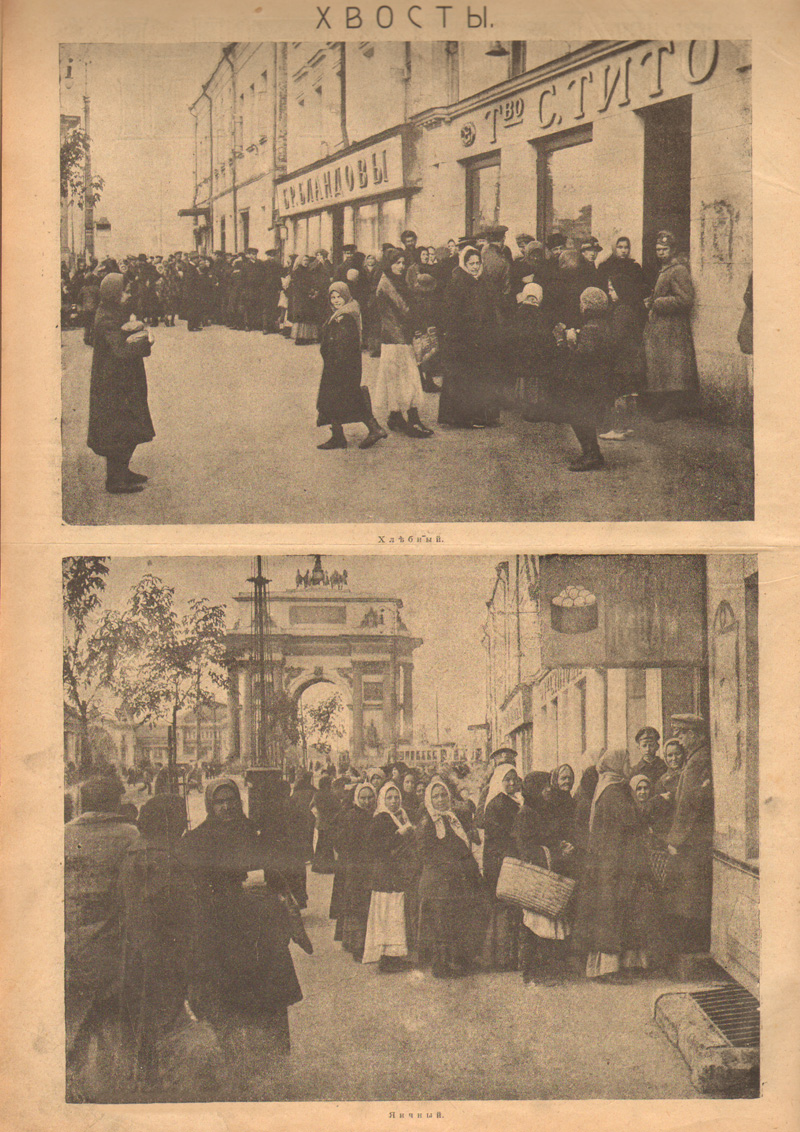 Queues (Khvosty). Photo by A. I. Savelyev. 1917